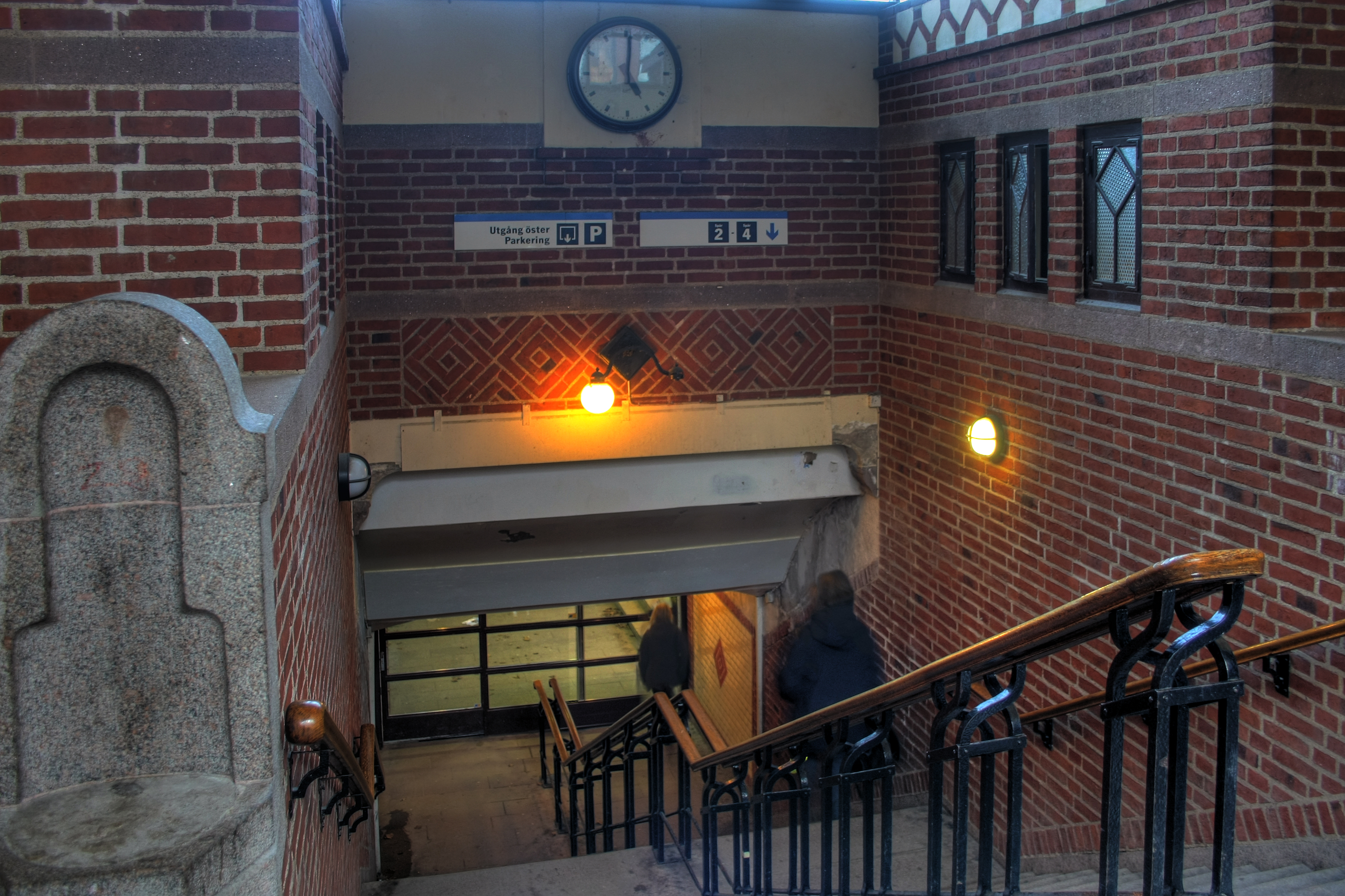 Eslöv train station in Eslöv, Sweden